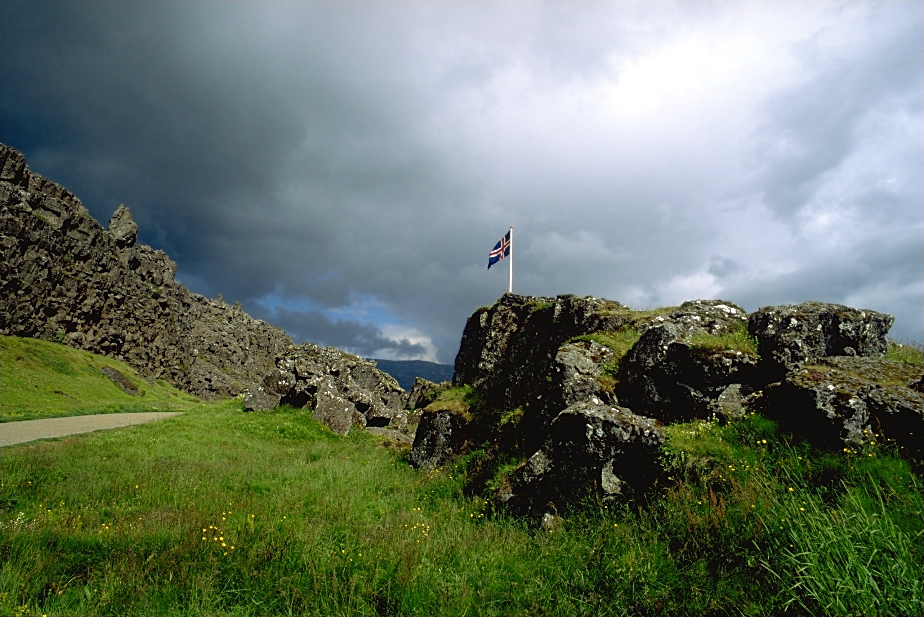 Almannagjá in Þingvellir; Iceland Photo was taken using the following technique: Film: Fuji Velvia Lens: 28-80 Filter: Body: Minolta Dynax 600si Support: Gitzo Monotrek Image with Information in English Bild mit Informationen auf Deutsch